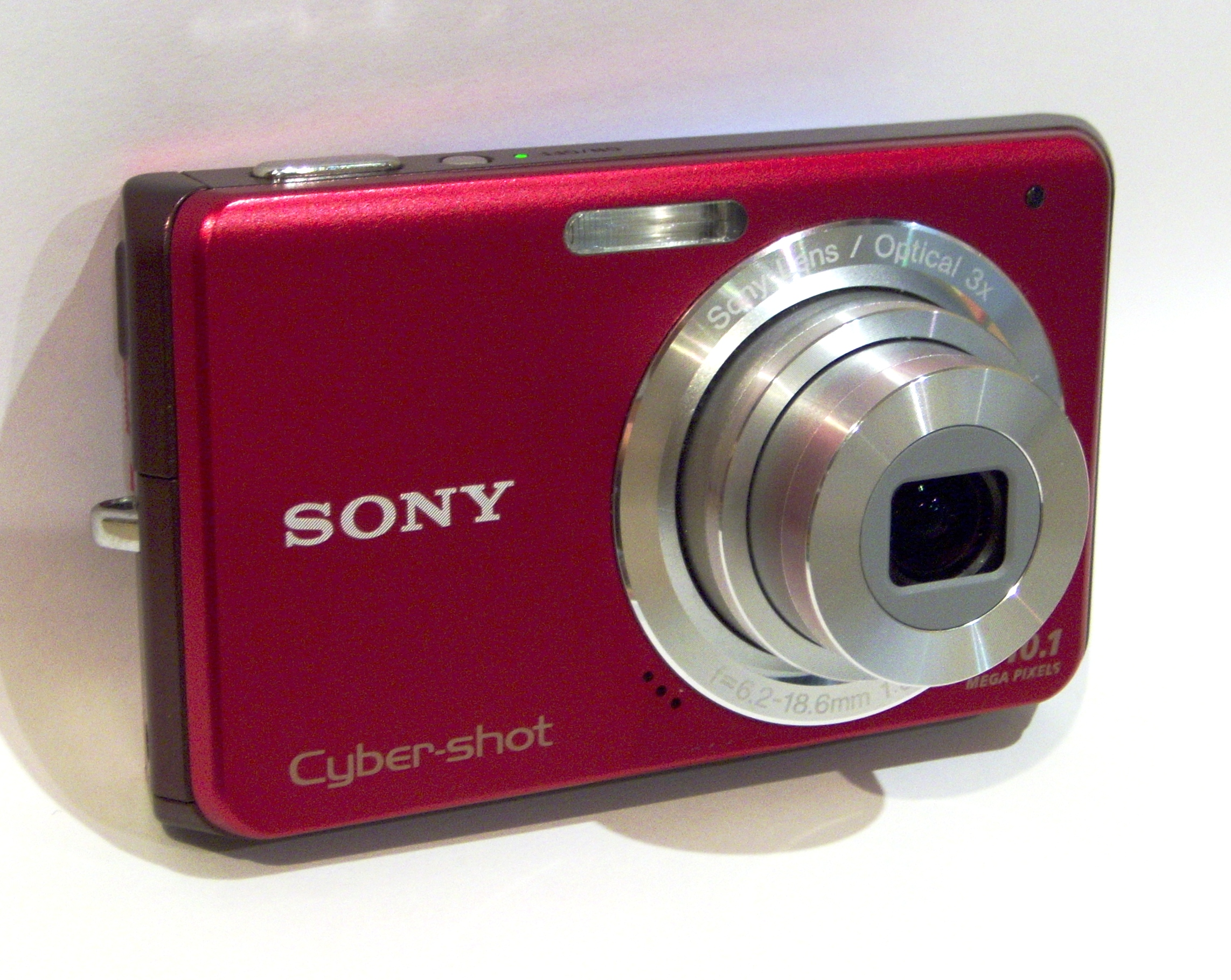 Sony Cyber-shot DSC-W180